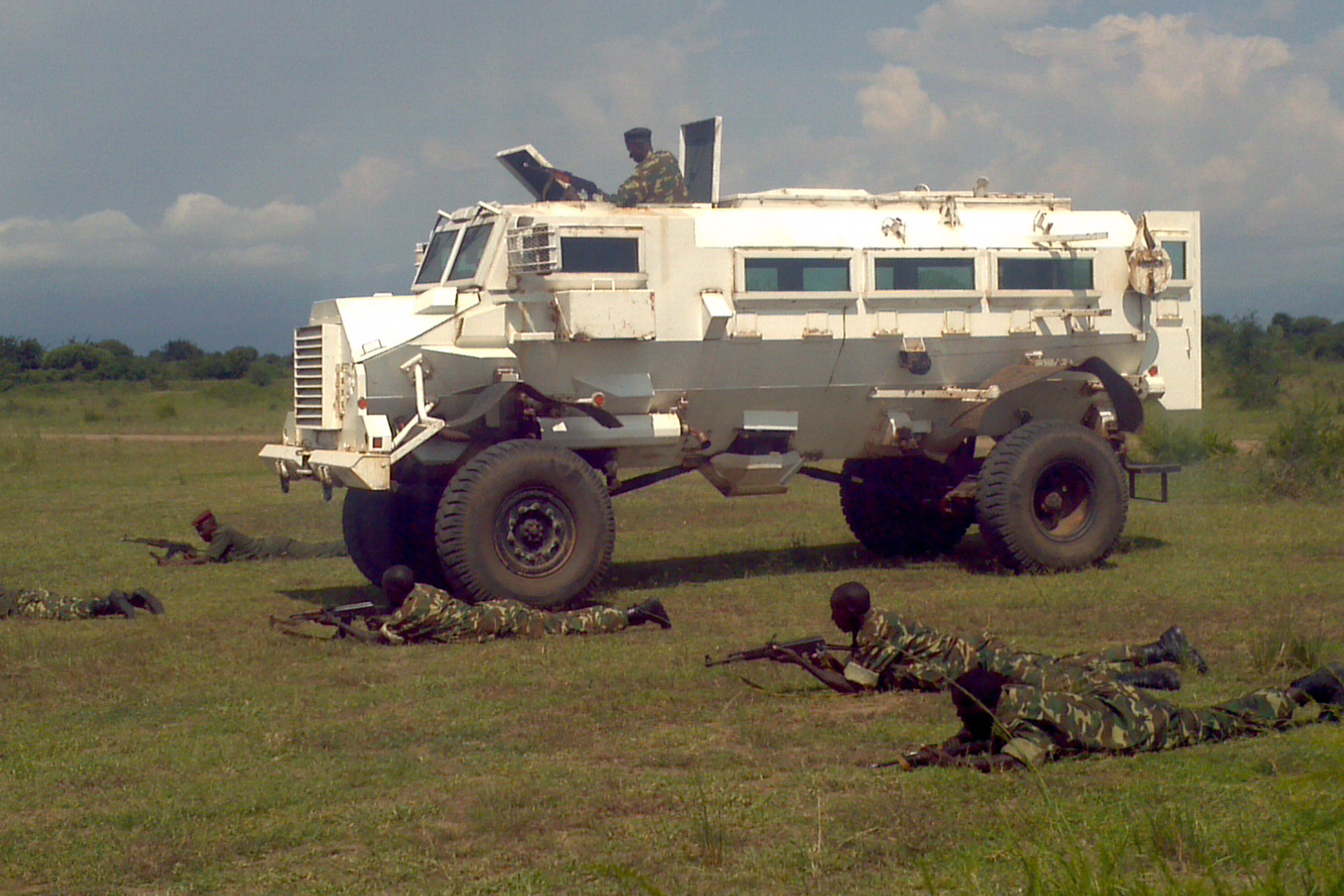 Burundi National Defense soldiers demonstrate squad movements during a mechanized infantry course recently with U.S. Army Soldiers from Task Force Raptor, 3rd Squadron, 124th Cavalry Regiment, Texas Army National Guard. The guardsmen conducted various military-to-military training sessions in support of Combined Joint Task Force - Horn of Africa, whose mission is to build partnerships with nations in East Africa. (U.S. Army photo) To learn more about U.S. Army Africa visit our official website at Official Twitter Feed: Official Vimeo video channel: Join the U.S. Army Africa conversation on Facebook